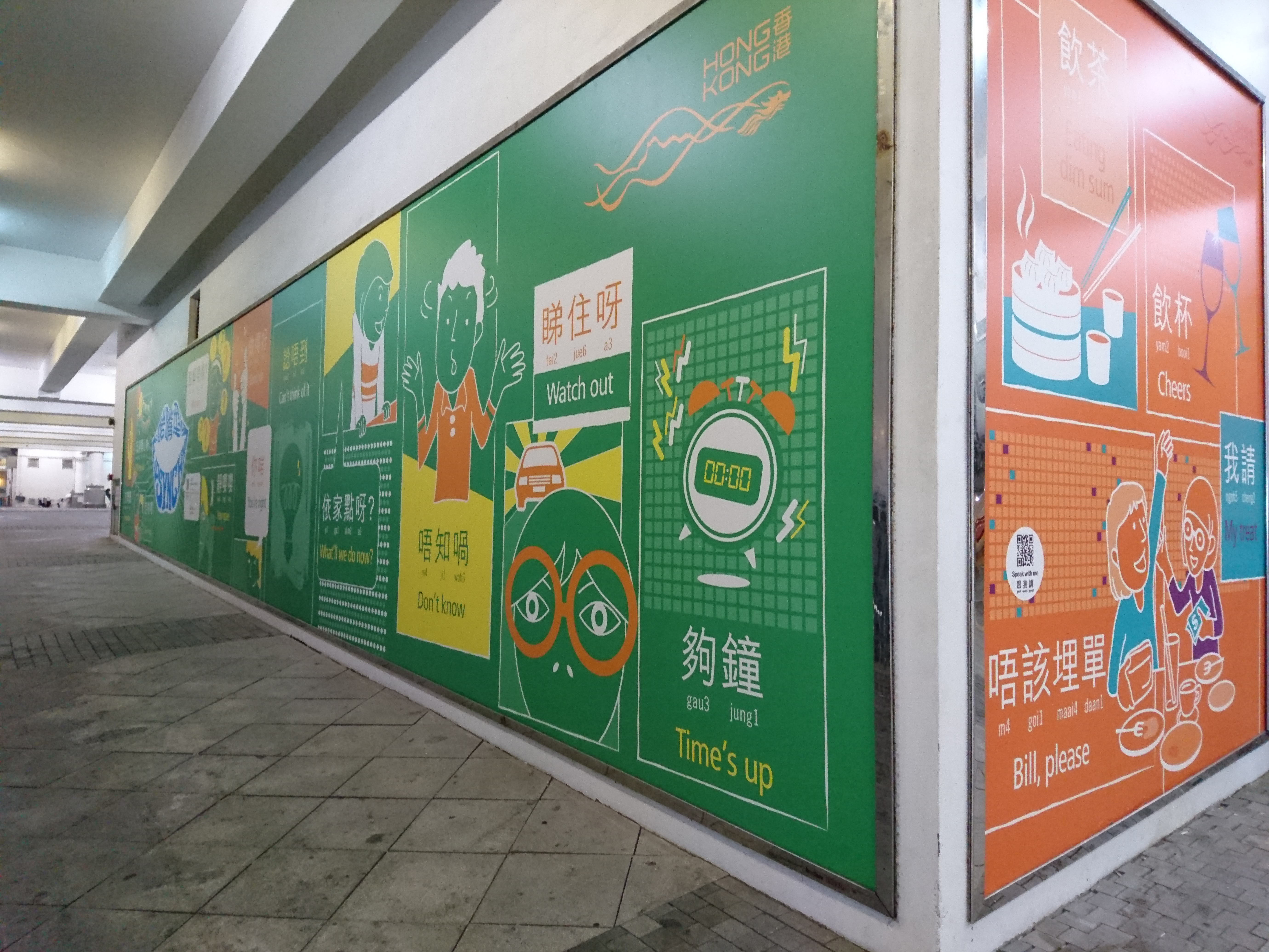 Cantonese Phases Decoration in Central Star Ferry Pier (1)